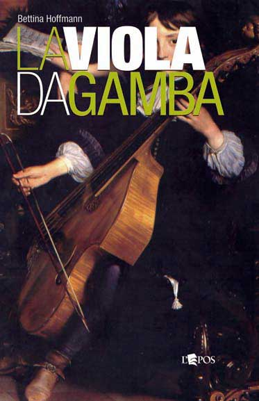 La viola da gamba